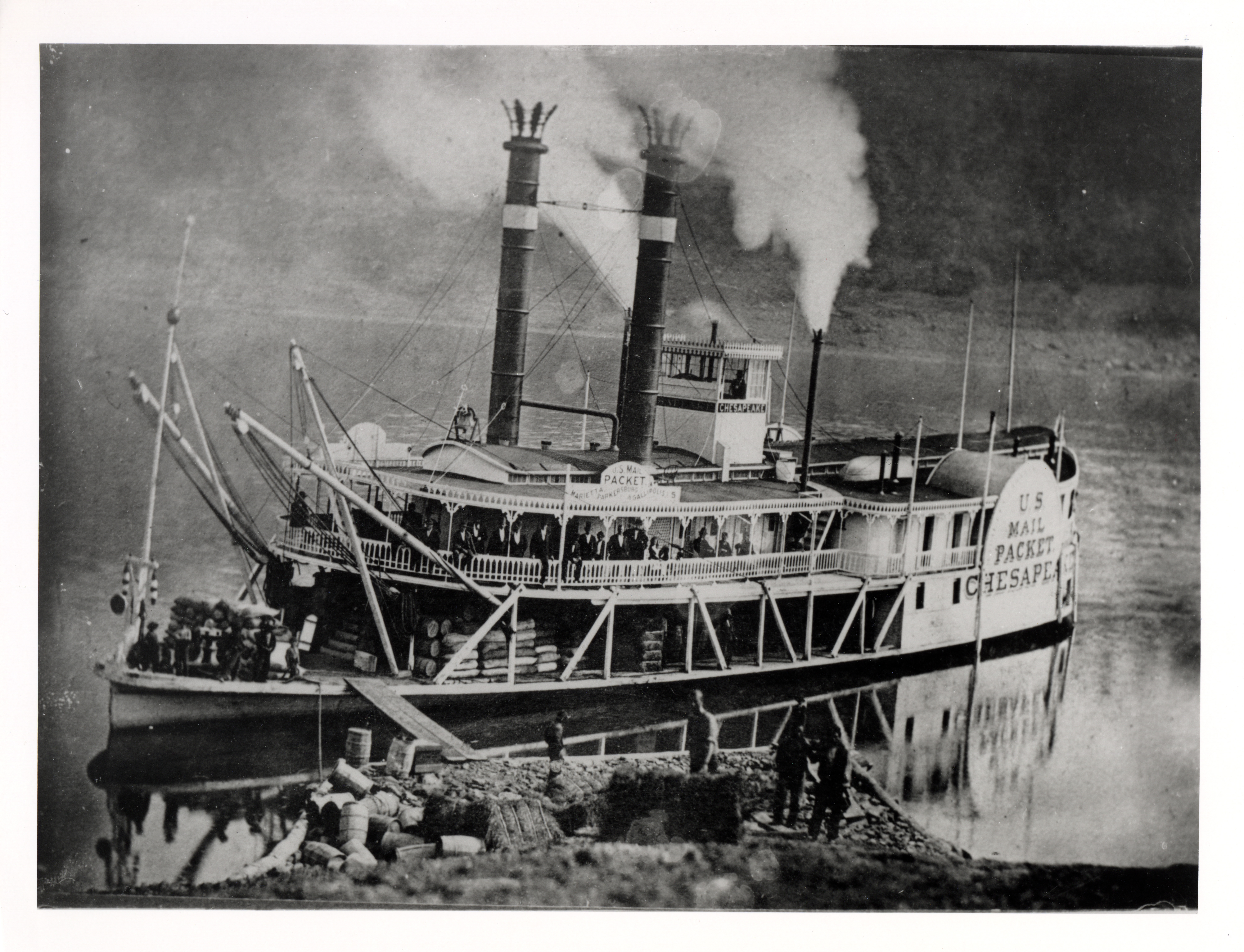 Description: The "Chesapeake," a U.S. Mail steamboat, docks at an unidentified port. Creator/Photographer: Unidentified photographer Medium: Black and white photographic print Culture: American Geography: USA Date: 1887 Collection: U.S. Mail Packets and Boats Repository: National Postal Museum Accession number: A.2006-89